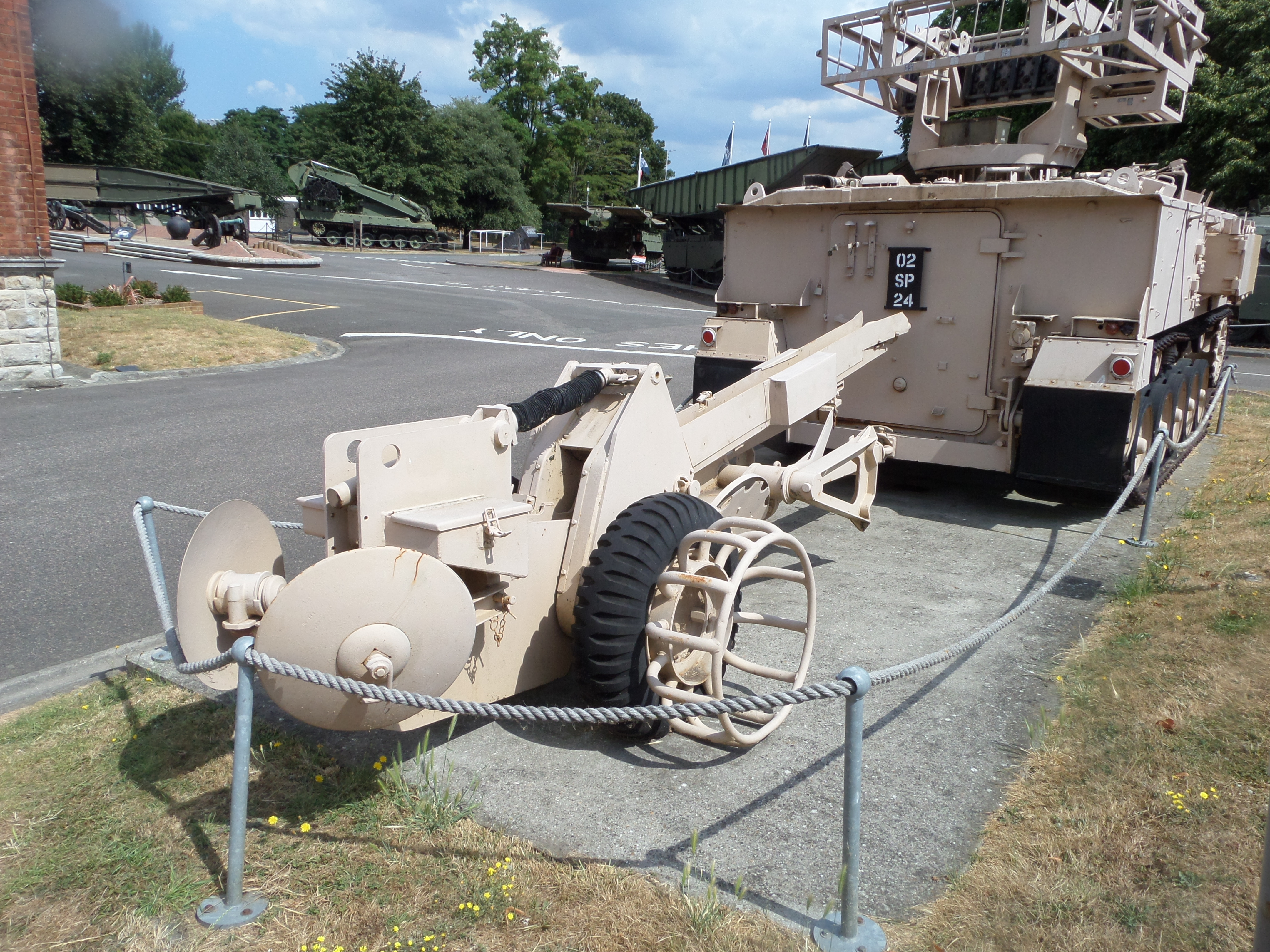 An Armoured Personnel Carrier (APC) configured as a mine layer. Entered service 1962. On the roof is a Ranger anti-personnel mine laying system that can throw 1296 mines in just six minutes. Towed at the back is a Barmine layer - designed to disable tanks - it could lay 700 mines per hour. On display at Royal Engineers Museum, Kent.